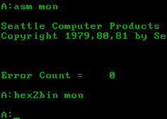 A screenshot of 86-DOS running Seattle Computer Product's assembler and HEX2BIN conversion tool, as supplied with 86-DOS in 1981.